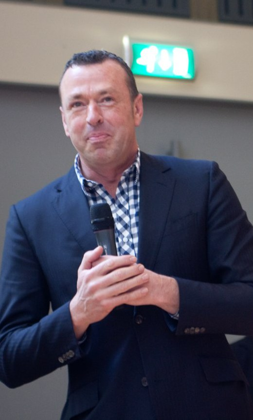 Jaap Dirkmaat, Dutch environmental activist and candidate MP for the GreenLeft